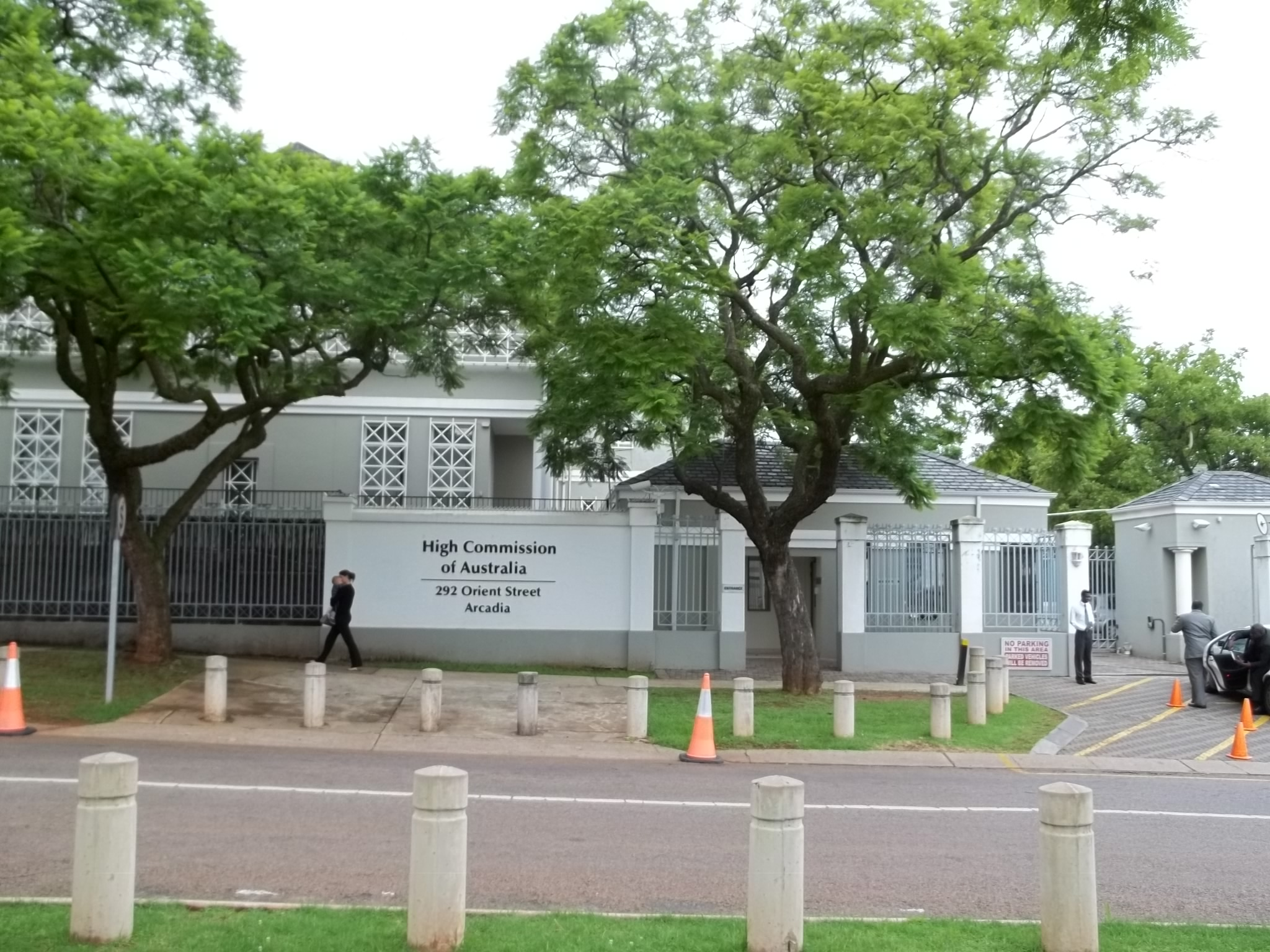 AU in ZA